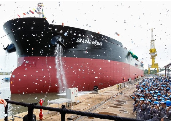 Porto de Suape inauguração de petroleiro.